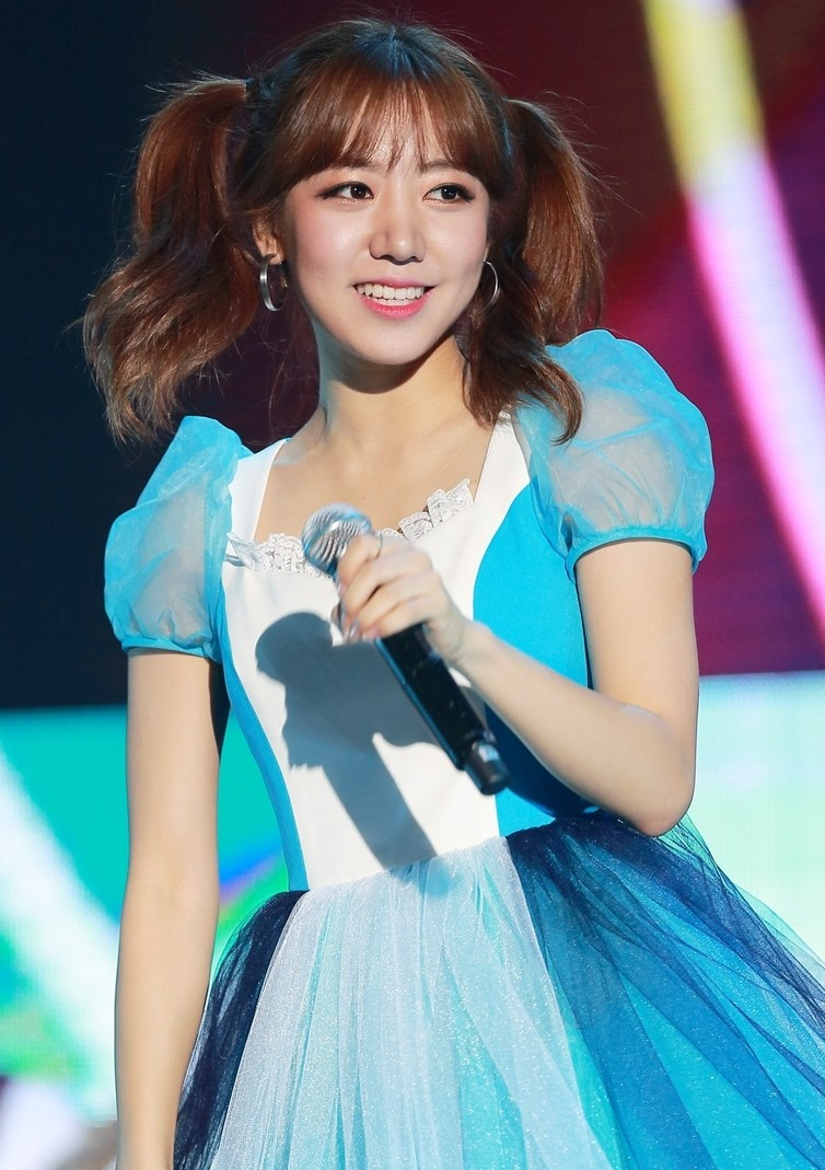 Kim Nam-joo during Pink Paradise concert, 30 May 2015